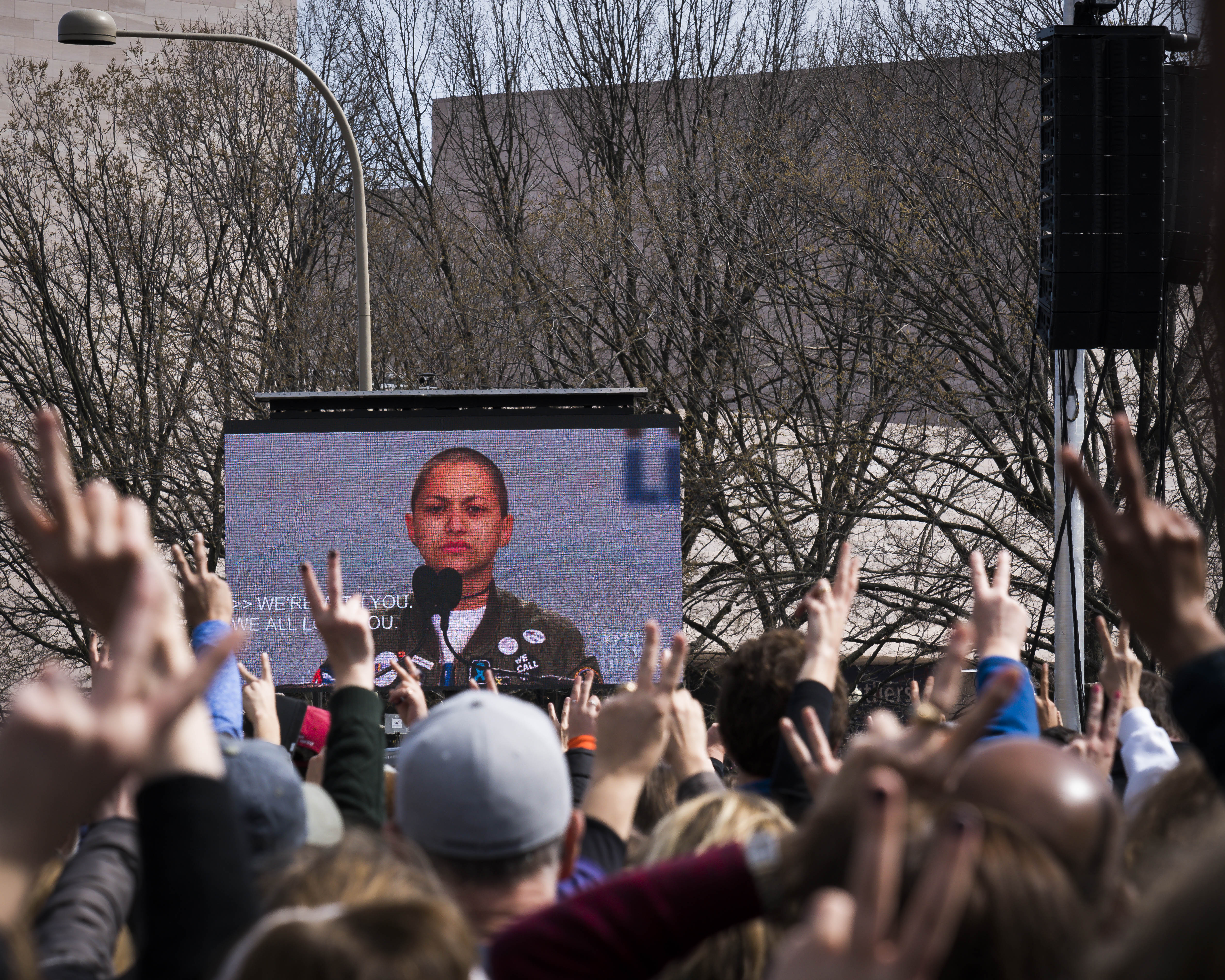 On 24 March 2018 In DC and other cities, hundreds of thousands of students and others marched to demand common sense gun control in the wake of dealdly school shootings in the U.S.